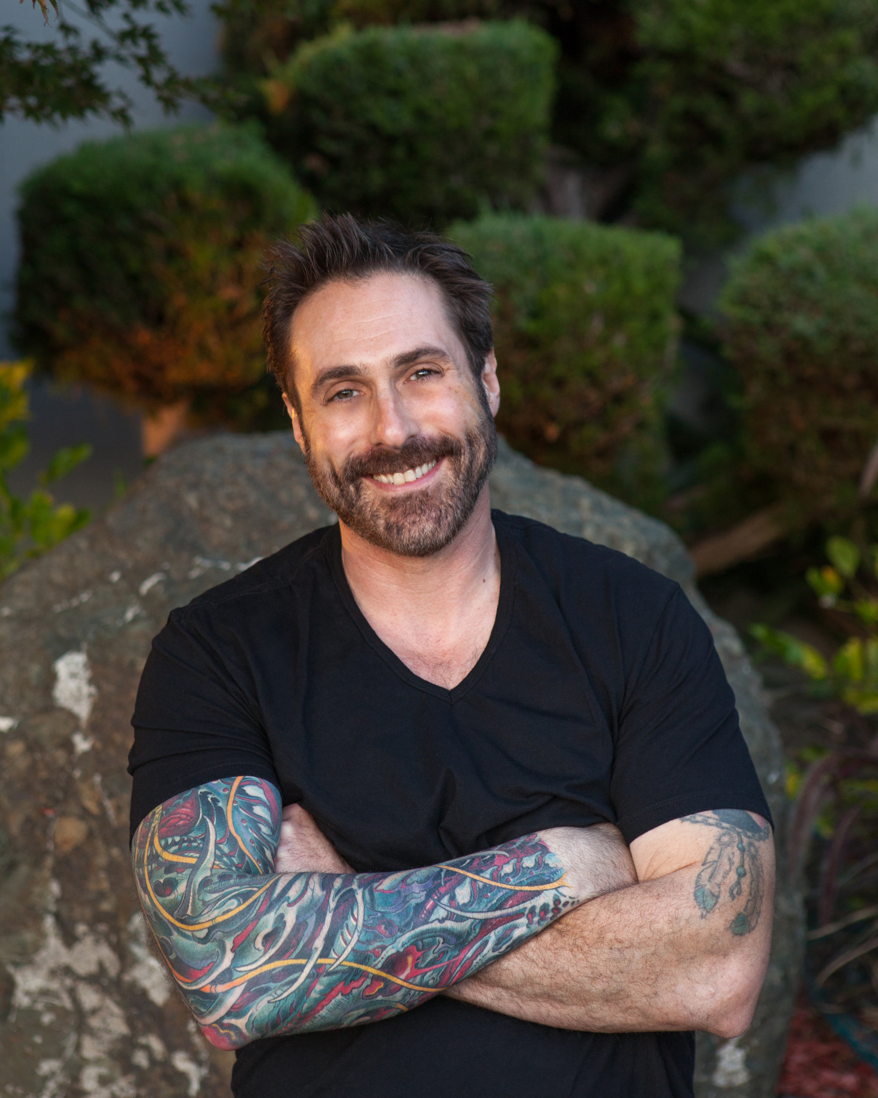 Joe Clifford, media download from his website